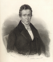 B.H. Lulofs